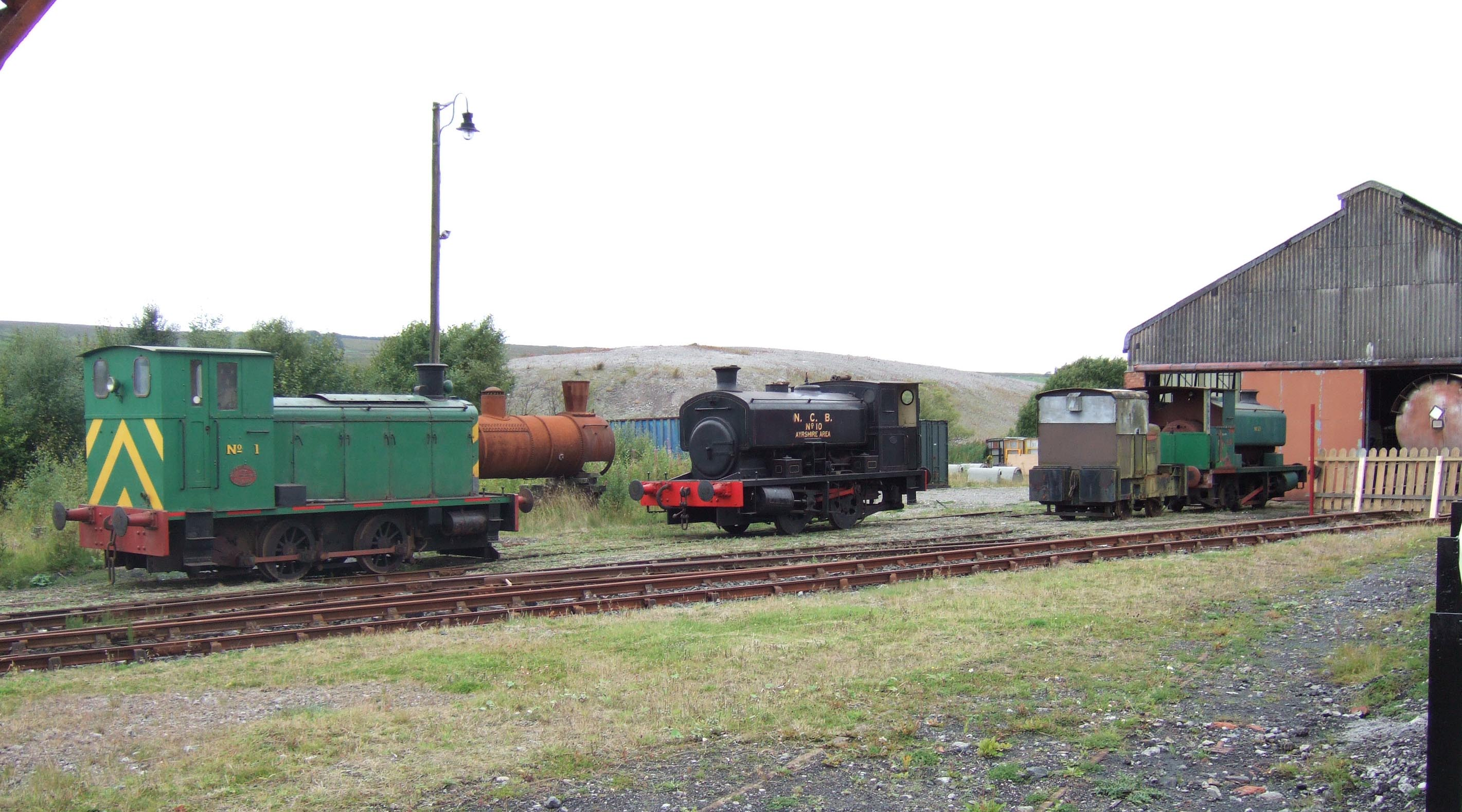 Scottish Industrial Railway Centre Dunaskin Locomotive Shed. 28th August 2005 From left to Right, the locomotives are:- No.1 Andrew Barclay 0-4-0DM 347 of 1941 No.10 Andrew Barclay 0-4-0ST 2244 of 1947 Ruston & Hornsby 4wDM (48DS Class) No.23 Andrew Barclay 0-4-0ST 2260 of 1949 Photographer - A.M.Hurrell Camera - Fuji FinePix F10 Modified - Trimmed and file size reduced using Adobe Photoshop 5.0LE